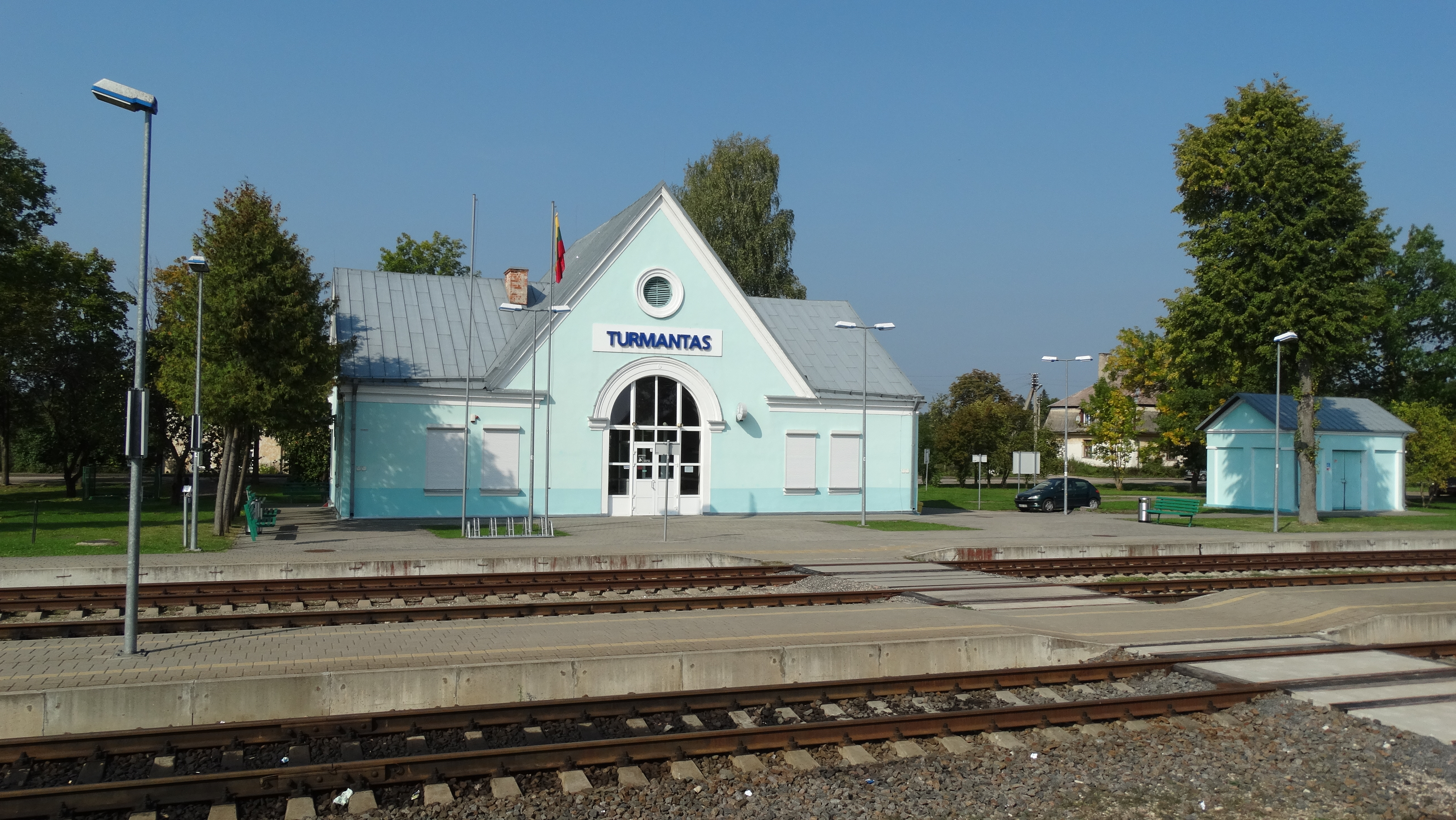 Train statation, Turmantas, Zarasai district, Lithuania